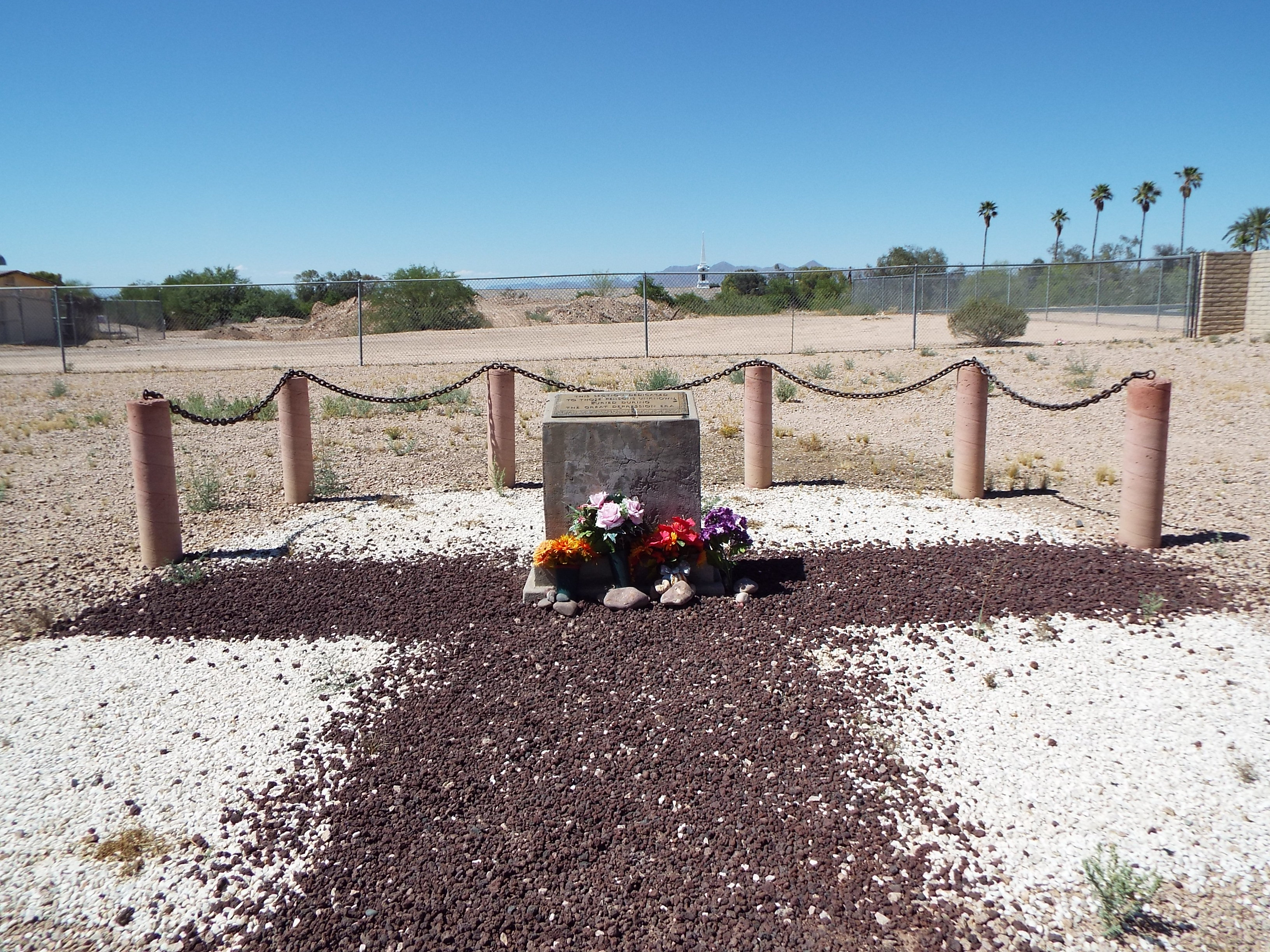 Memorial dedicated to those persons unknown buried during the Great Depression era in the City of Mesa Cemetery in Mesa, Arizona